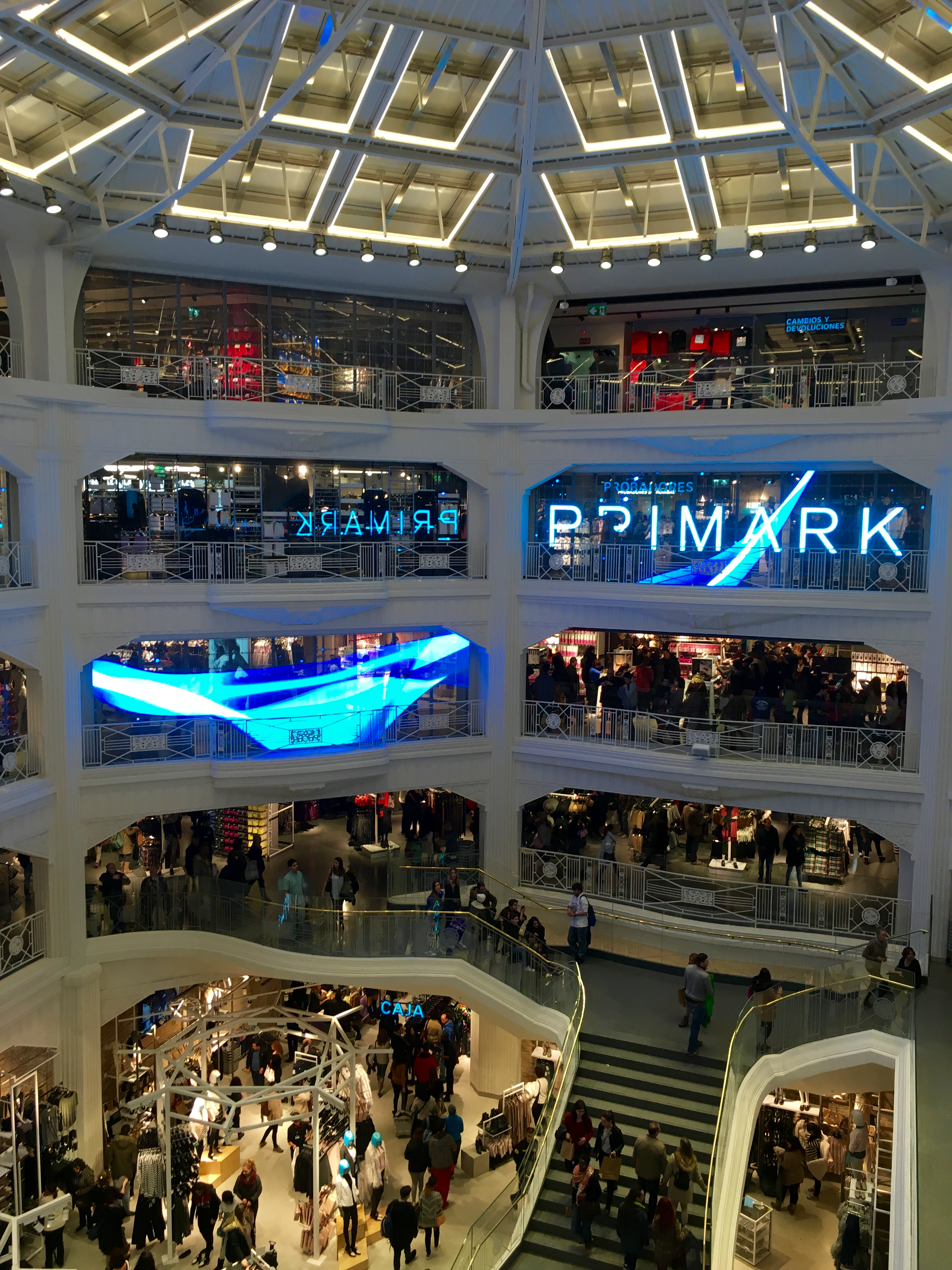 Image attribution: TravelToSpain Please include a link to traveltospain.co